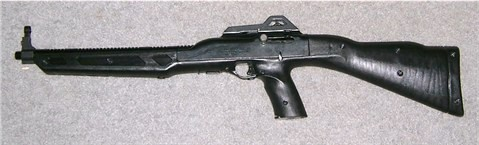 Hi-Point 995 Carbine 9 mm semi-automatic rifle